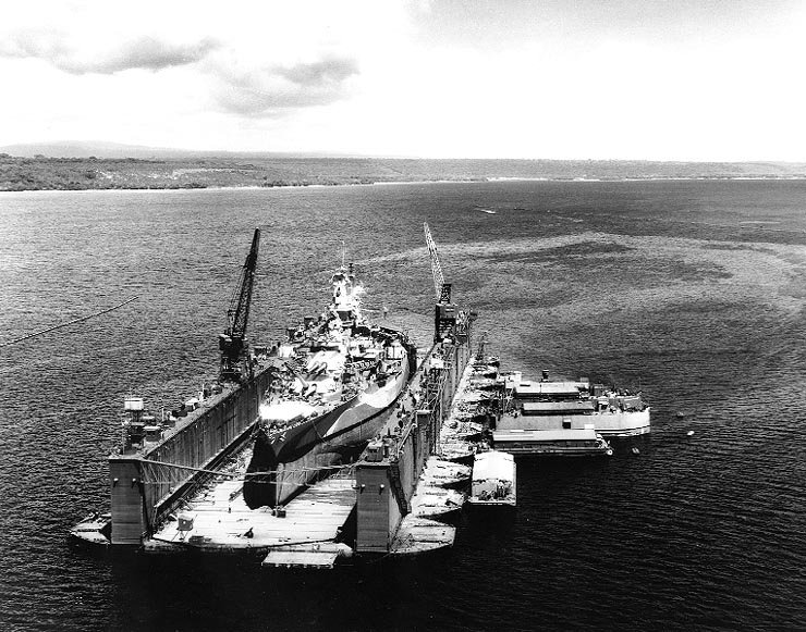 AFDB-1 with West Virginia (BB-48) high and dry in the dock, off Aessi Island, Espiritu Santo, New Hebrides, 13 November 1944. The battleship was docked for upkeep and repair to propellers damaged when she touched ground off Leyte on 21 October. US National Archives photo # 80-G-314220, a US Navy photo now in the collections of the US National Archives. Removed caption read: Photo # 80-G-314220 USS West Virginia in floating drydock ABSD-1, 1944